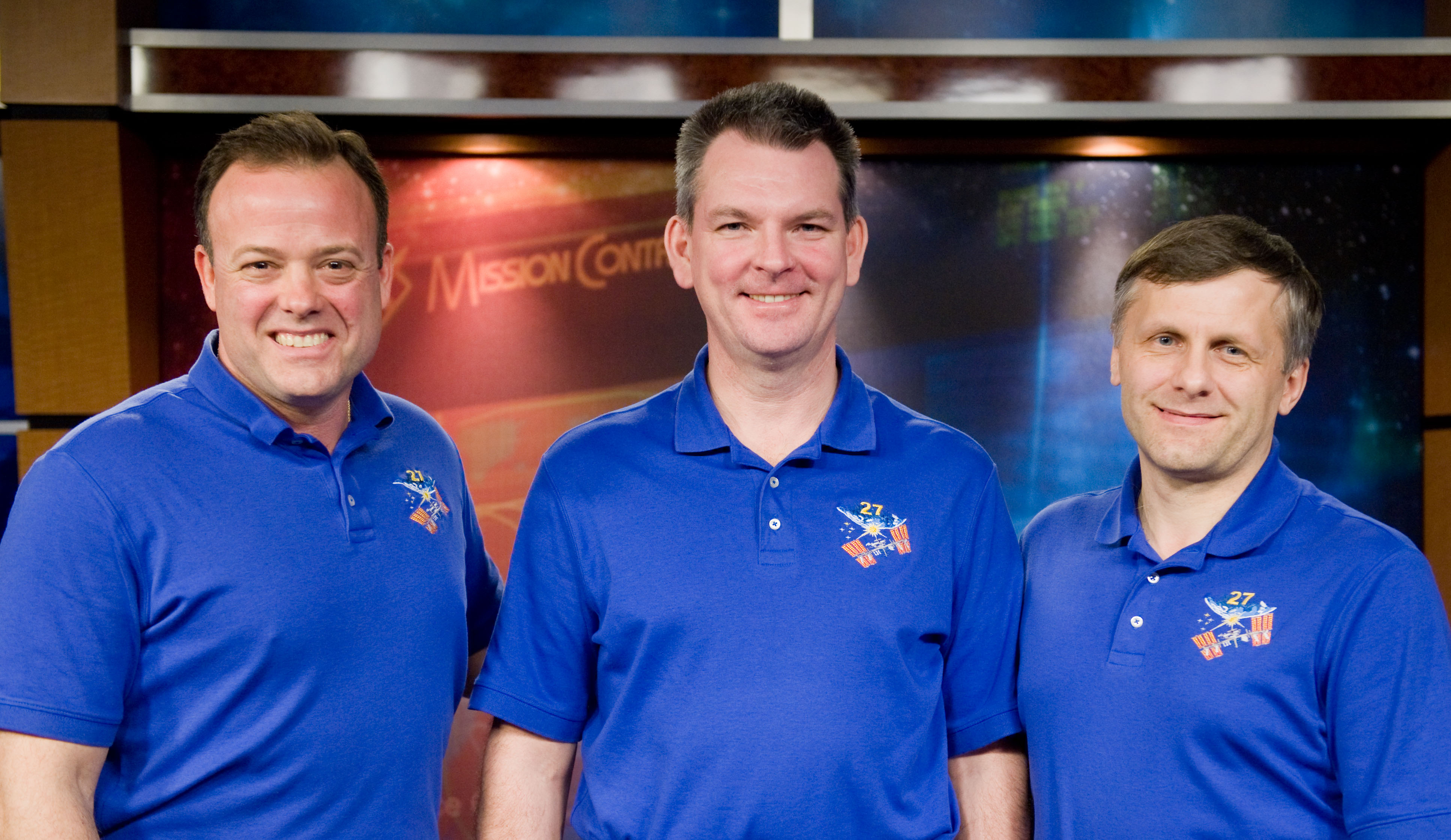 Russian cosmonaut Andrey Borisenko (right), Expedition 27 flight engineer and Expedition 28 commander; Russian cosmonaut Alexander Samokutyaev (center) and NASA astronaut Ron Garan, both Expedition 27/28 flight engineers, pose for a portrait following an Expedition 27/28 preflight press conference at NASA's Johnson Space Center. Borisenko, Samokutyaev and Garan are scheduled to launch to the International Space Station aboard a Russian Soyuz spacecraft in March 2011.